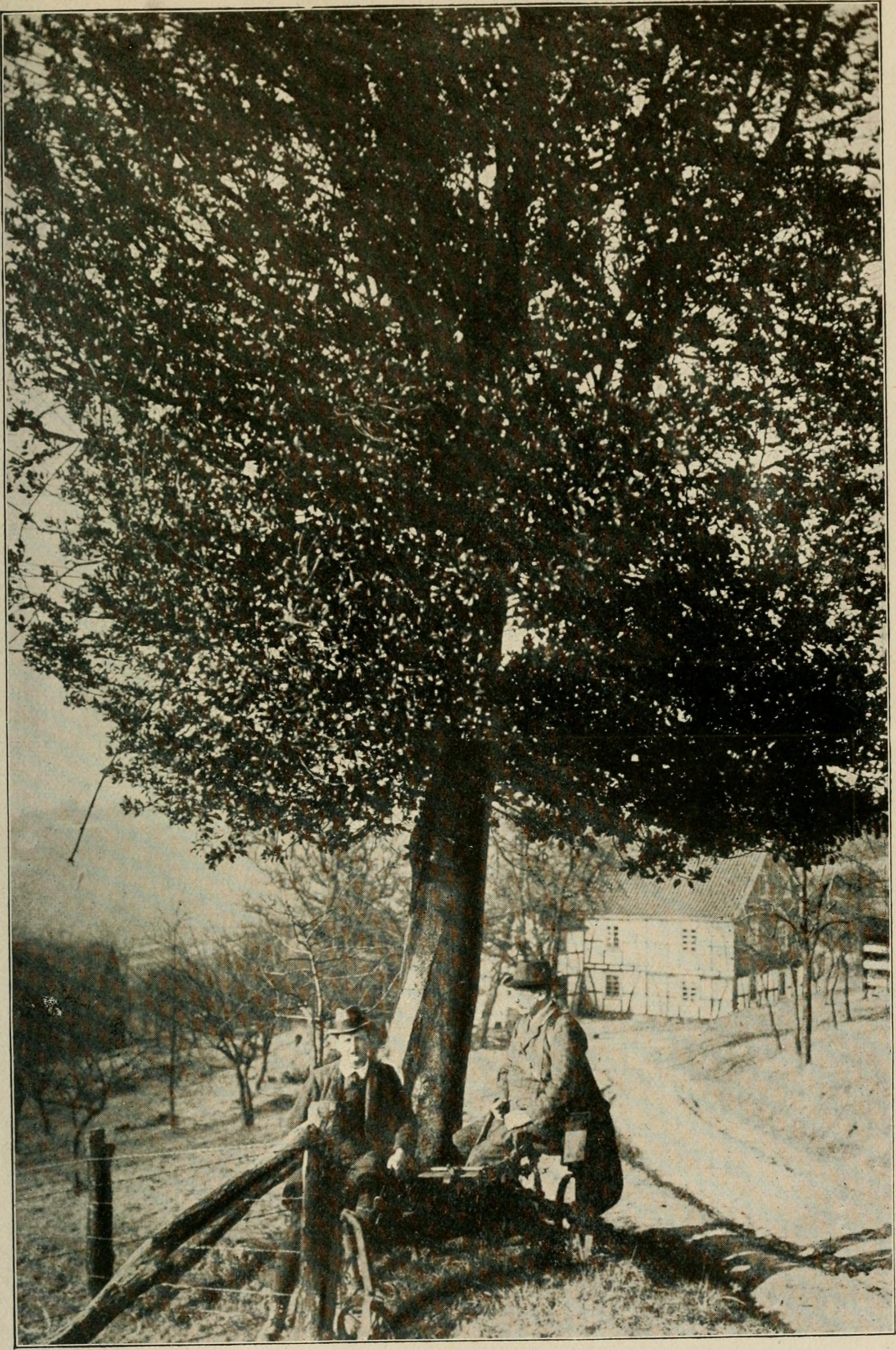 Title: Mitteilungen der Deutschen Dendrologischen Gesellschaft Year: 1892 (1890s) Authors: Deutsche Dendrologische Gesellschaft Subjects: Deutsche Dendrologische Gesellschaft Trees Forests and forestry Publisher: (Poppelsdorf-Bonn : L. Beissner Text Appearing Before Image: de, die auf der Erde lagen. Auchda trat ein massenhaftes Gelbwerden des Hülsenlaubes mit nachfolgendem starkemBlätterfall ein. Die unmittelbare Ursache war dieselbe wie im trockenen Sommer1911. Die intensive Sonnenbestrahlung hatte das Hülsenlaub vollkommen aus-getrocknet, weil ein Aufsteigen von Saft und dadurch ein Ersatz der aus den Blätternverdunsteten Feuchtigkeit nicht stattfinden konnte. Nur der Grund für den Wasser-mangel war ein anderer: 1911 bestand er in der großen Trockenheit und dem ge-sunkenen Grundwasserspiegel, 1916/17 in dem außergewöhnlich tief eingefrorenenBoden. Aber noch ein Unterschied war gegen 1911 vorhanden. Während damalsdas Absterben des Hülsenlaubes ganz allgemein und an den einzelnen Pflanzen ganzgleichmäßig stattfand, zeigten sich die Schäden im Winter 1916/17 nur an dersonnenbestrahlten Seite, so daß das Laub auf der Nordseite tadellos grün gebliebenwar. Im Schatten stehende Hülsen hatten überhaupt nicht gelitten. Alleinstehende Tafel 5. Text Appearing After Image: Aufnahme: Postrat Peters. Ilexbaum genannt »Dr. Foerster-Hülse« in Mittel-Enkeln bei Kürten (Reg.-Bez. Köln, KreisWipperfürth), Umfang 1,45 m, Höhe 10 m, nach bisherigen Ermittelungen der stärkste Hülsenbaum Deutschlands. ffi -s ??